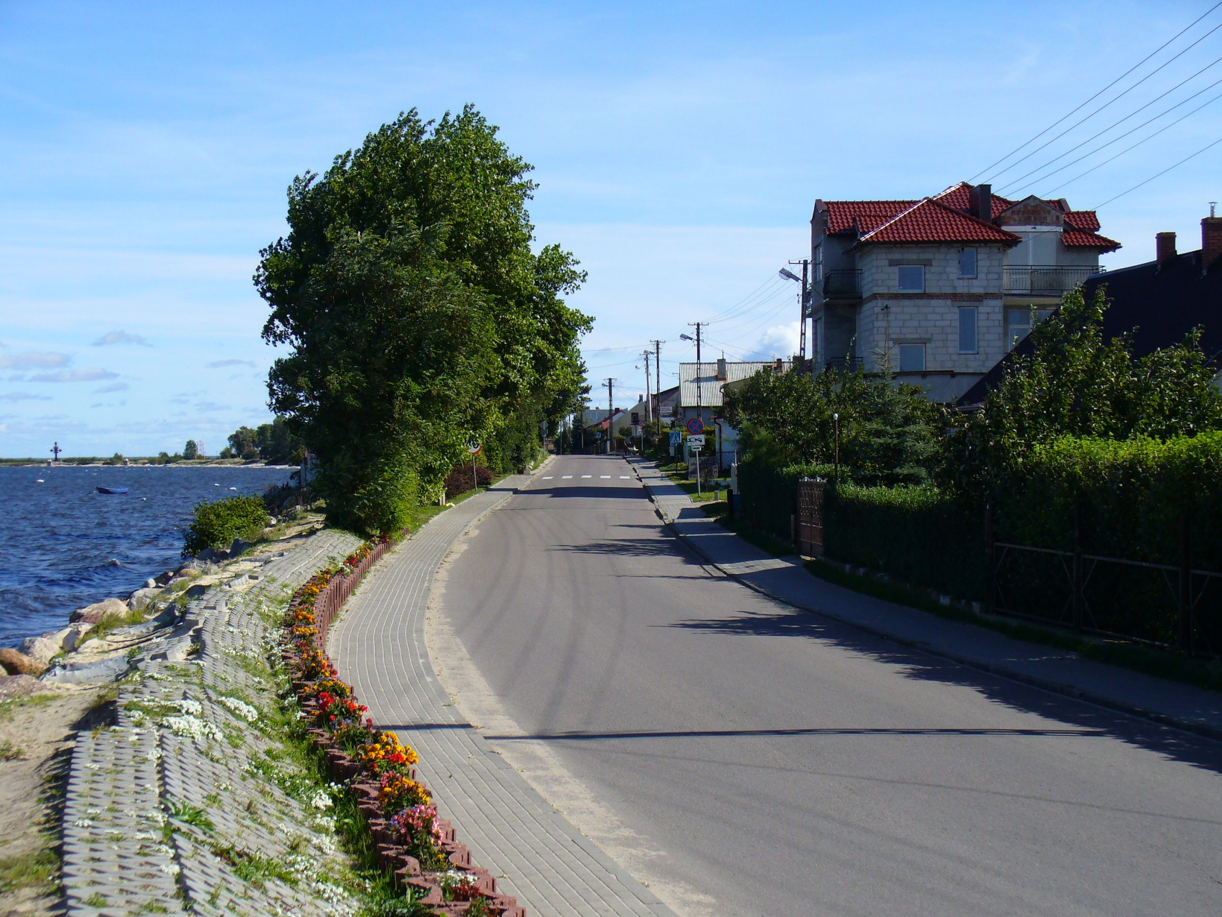 Rewa, Poland